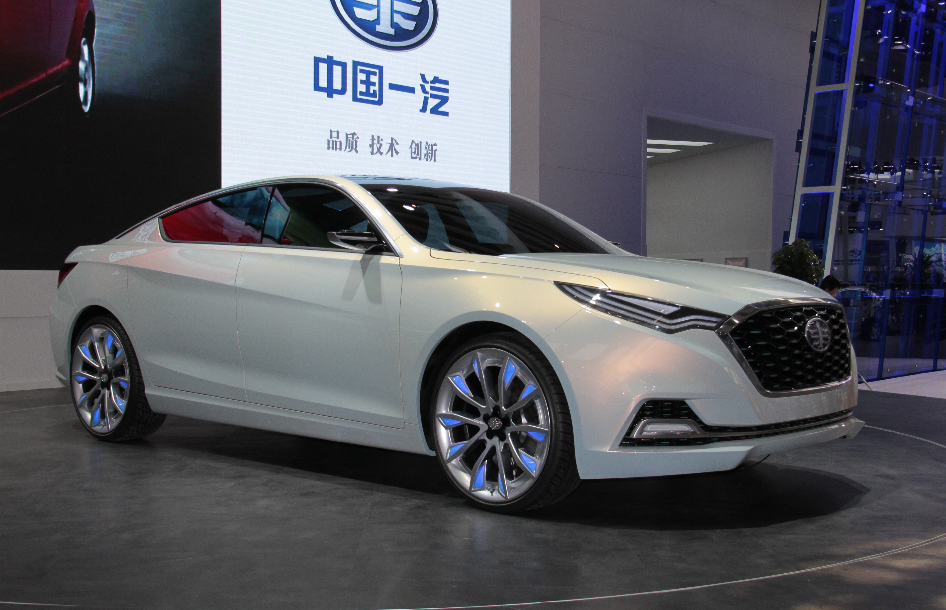 FAW Besturn Pi concept car at Auto China 2014 (Beijing)